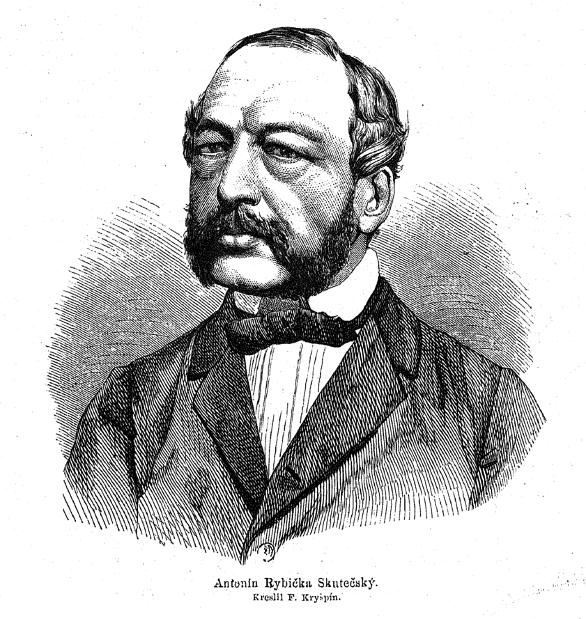 Portrait of Antonín Rybička (1812-1899), Czech lawyer, historian and archivist